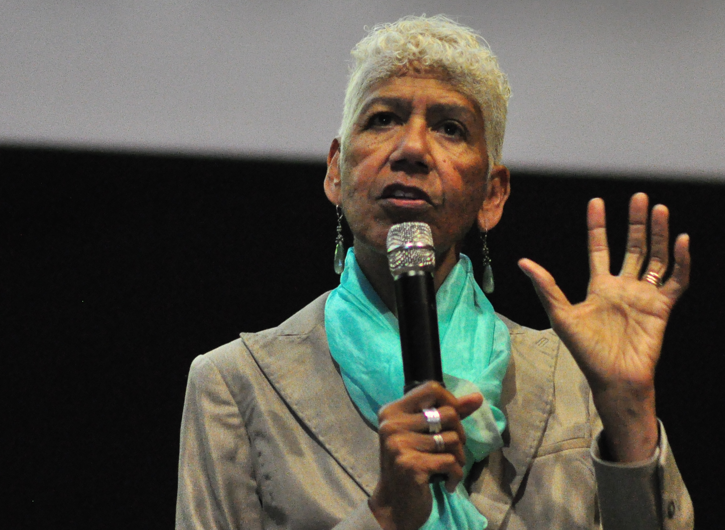 Former Black Panther Ericka Huggins appearing at the Pacific Place Cinema in Seattle, Washington, during the 2015 Seattle International Film Festival, speaking after the documentary The Black Panthers: Vanguard of the Revolution.